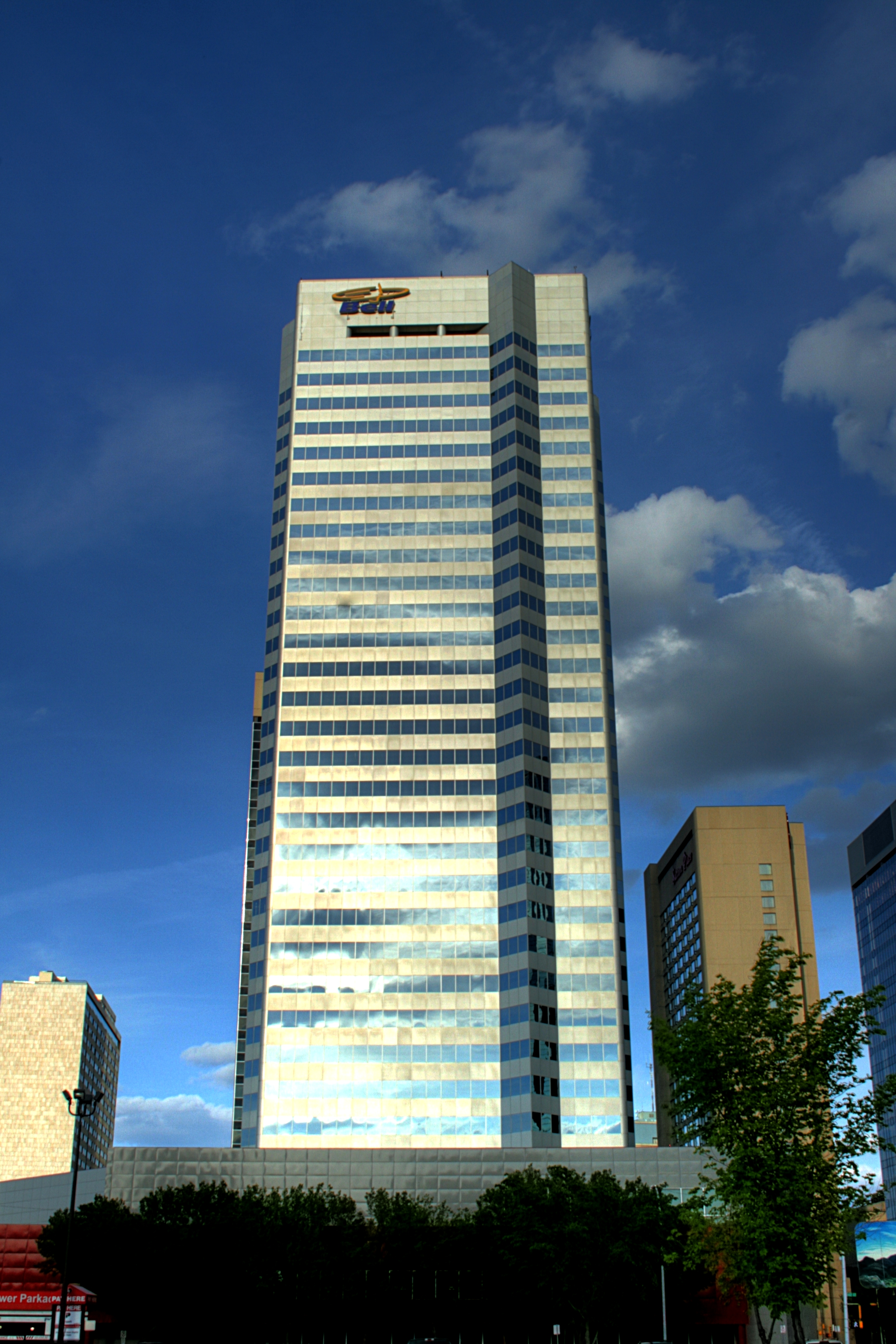 The Bell Tower building in Edmonton, Alberta, Canada.